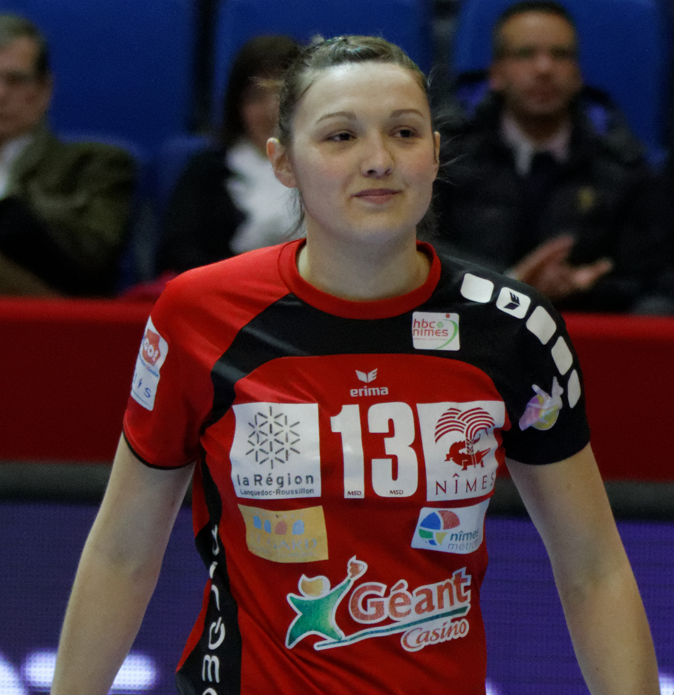 Final of the Women's handball French cup 2013. Handball Cercle Nîmes vs Issy Paris Hand, stadium Pierre-de-Coubertin at Paris.